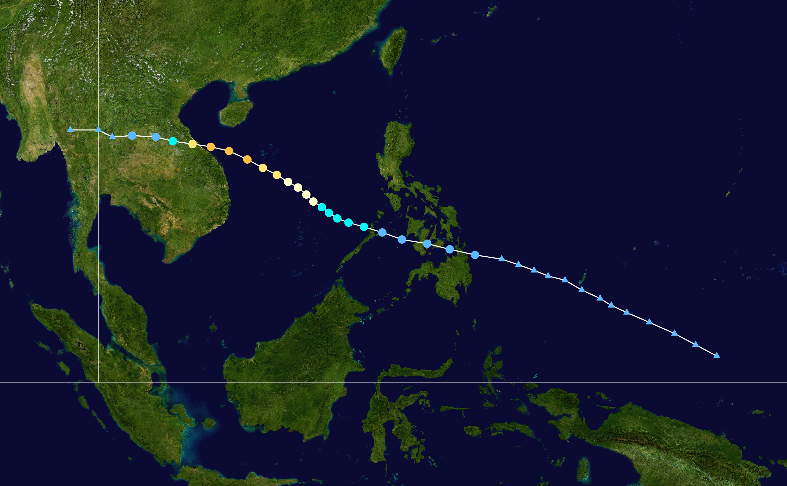 Typhoon Cecil 1985 track. Uses the color scheme from the Saffir-Simpson Hurricane Scale.